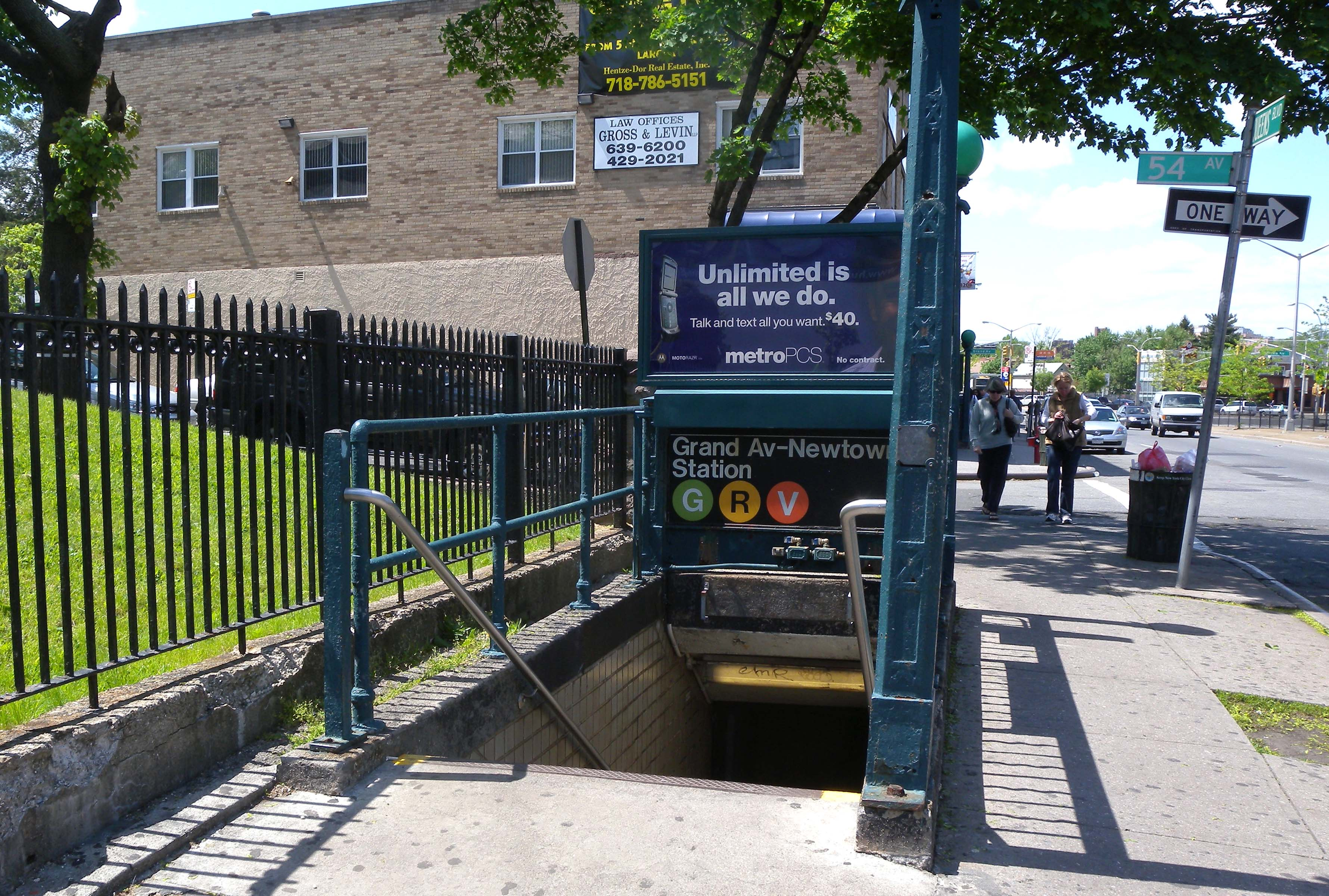 Looking northwest along Queens Boulevard at Grand Avenue station of IND